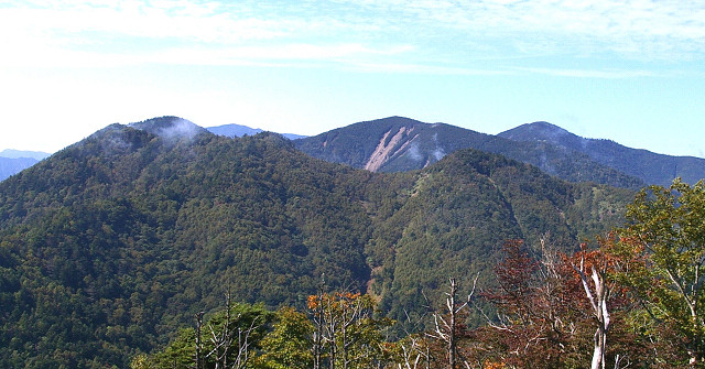 The NW view from Mount Kasatori.